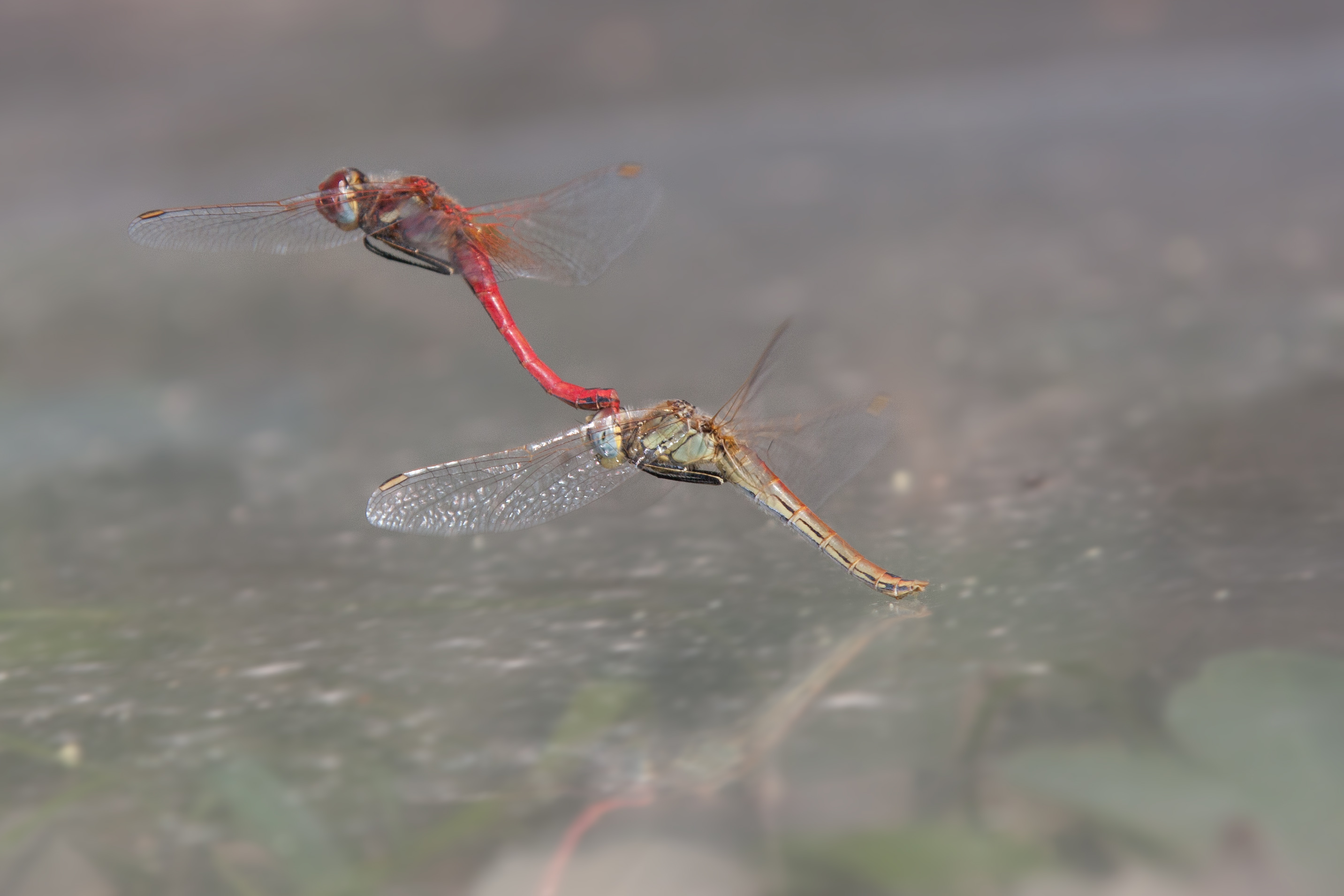 Red-veined darter